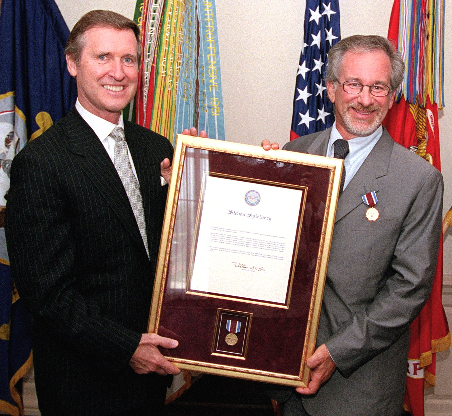 Secretary of Defense William S. Cohen, (left) presents a framed citation accompanying the Department of Defense Medal for Distinguished Public Service to Steven Spielberg (right) in the Pentagon.